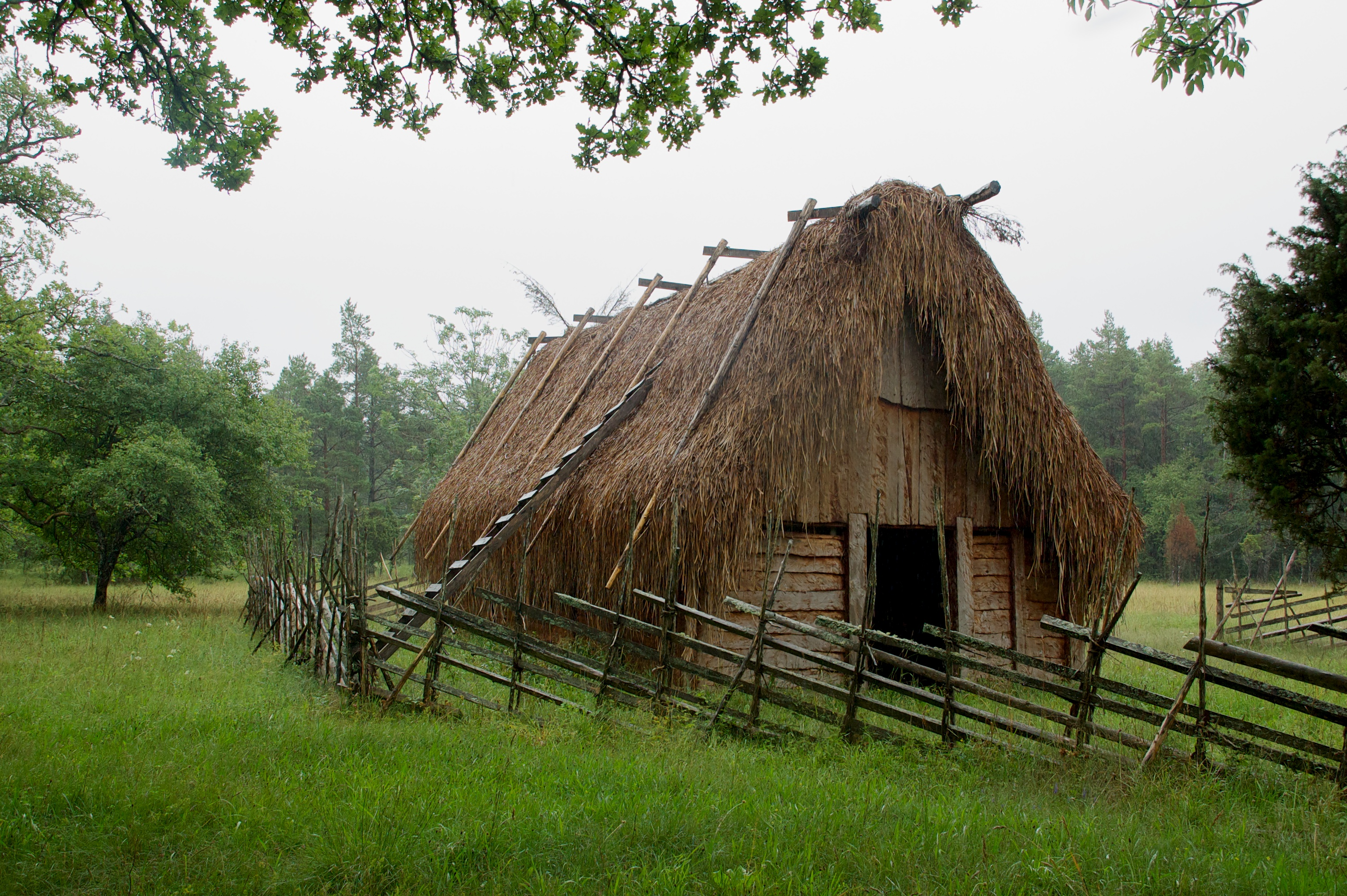 Reconstructed buildings at the former farm Fjäle nearby Ala, Gotland.